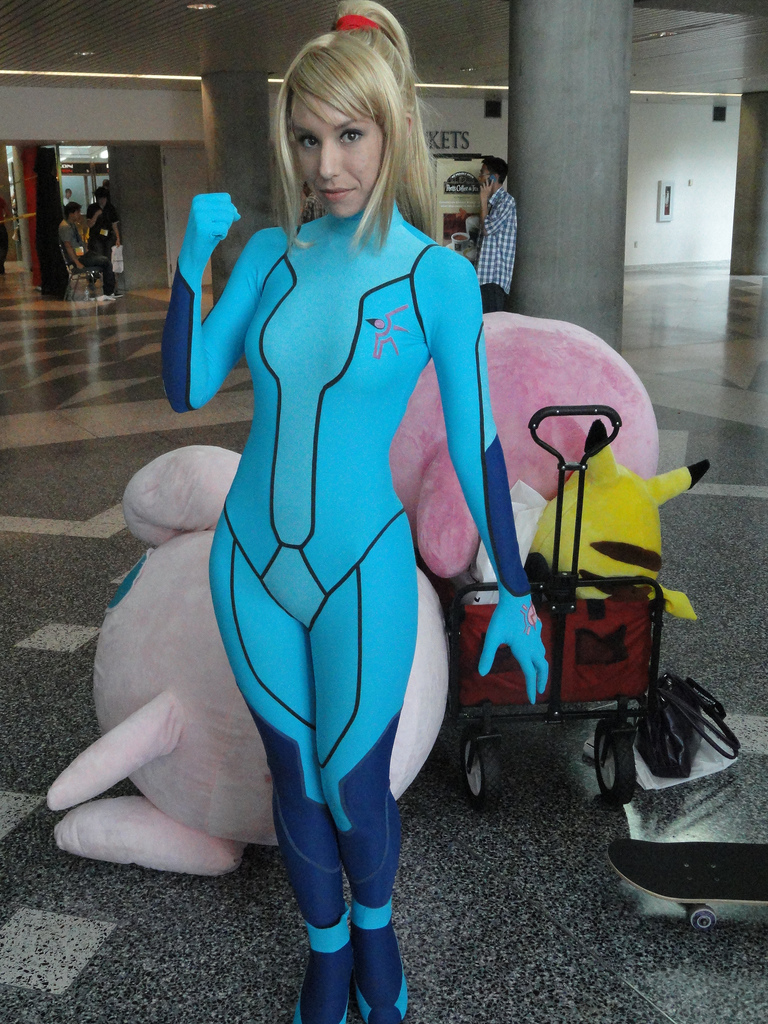 Cosplay of Zero Suit Samus (photo taken on May 27, 2011).